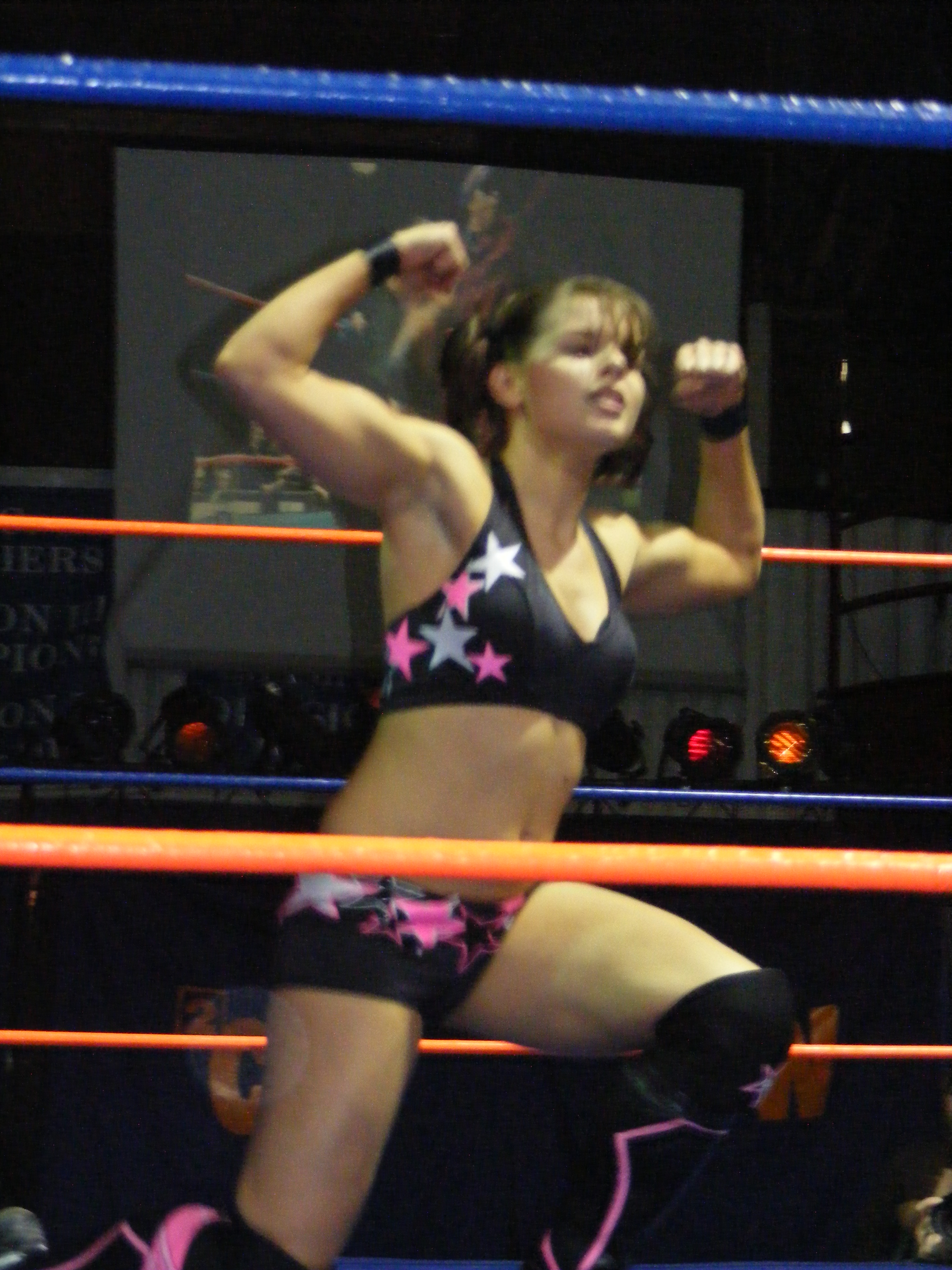 Portia Perez at a 2CW show in April 2009